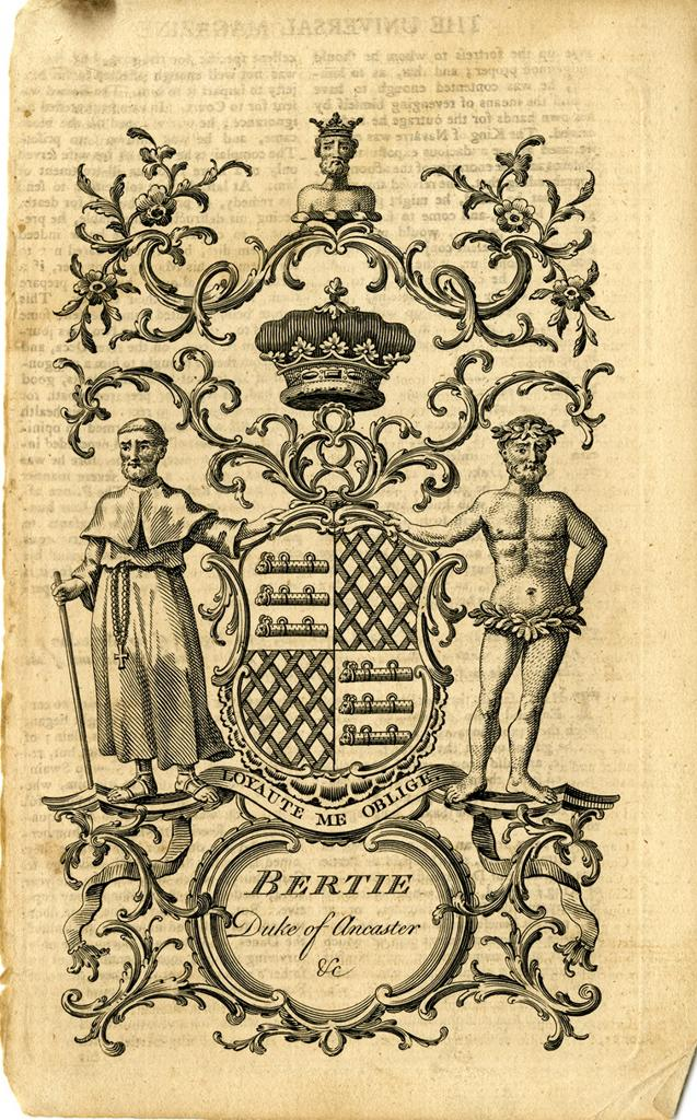 Armorial/Heraldic Bookplates. Subject: Coat of arms; Shields; Crowns; Men; Monks; Floral. Subject - Family Name: Bertie.